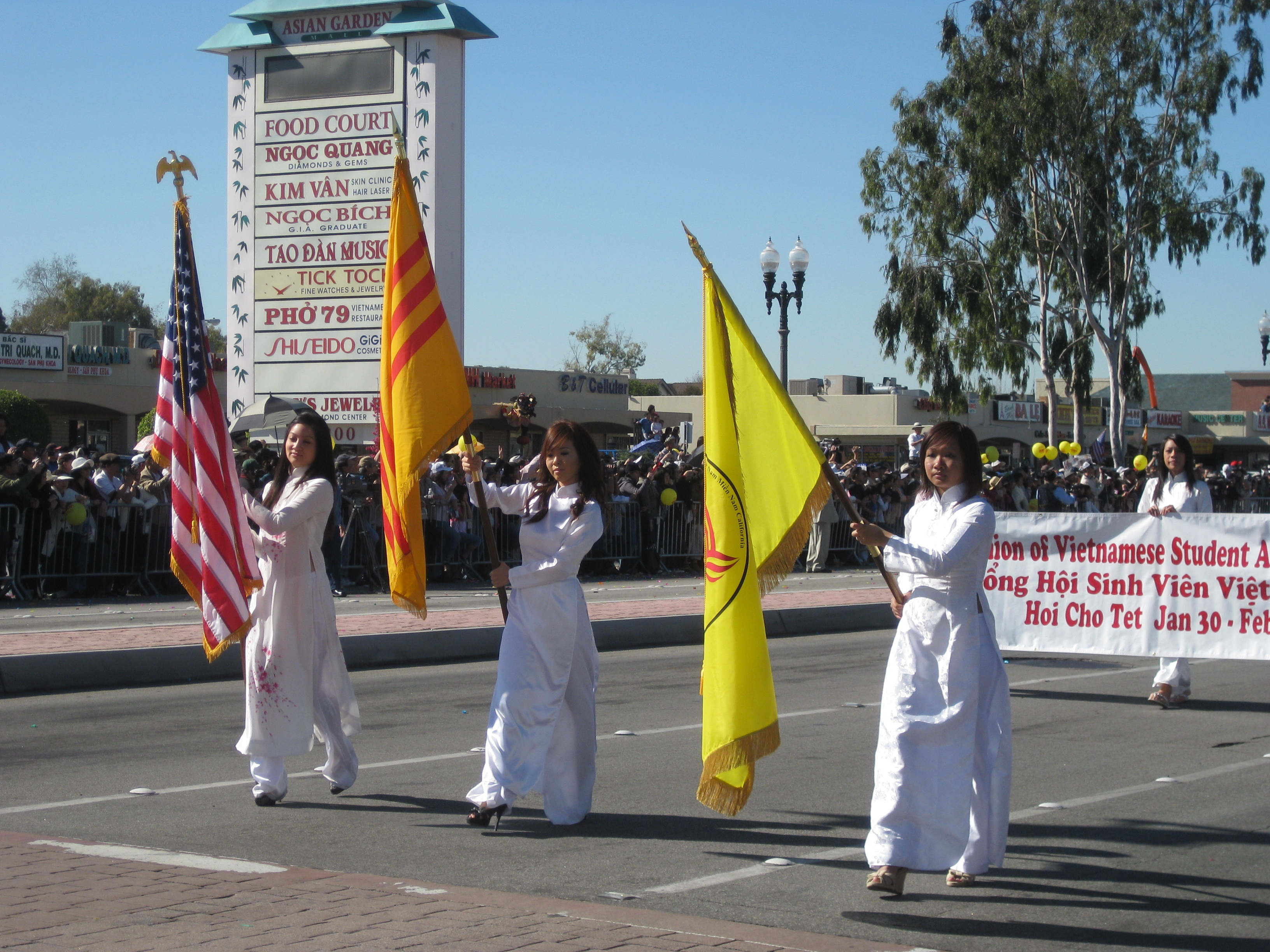 The Union of North American Vietnamese Student Associations (UNAVSA) of Southern California parading at a Tet parade